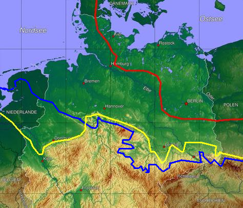 Ice age map of europe, red: maximum limit of Weichselian ice age, yellow Saale-ice age at maximum (Drenthe stage), blue Elster-ice age maximum glaciation.